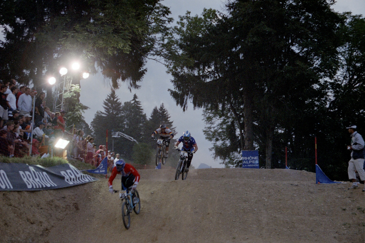 Four cross at 2004 UCI Mountain Bike and Trials World Championships at Les Gets, France